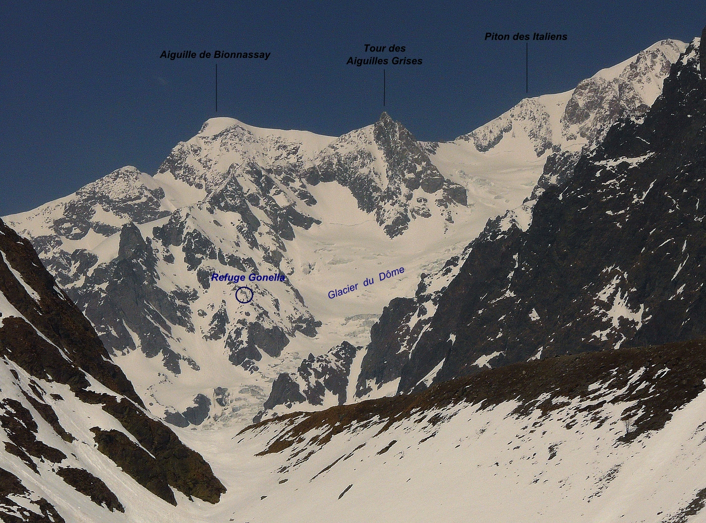 Miage basin